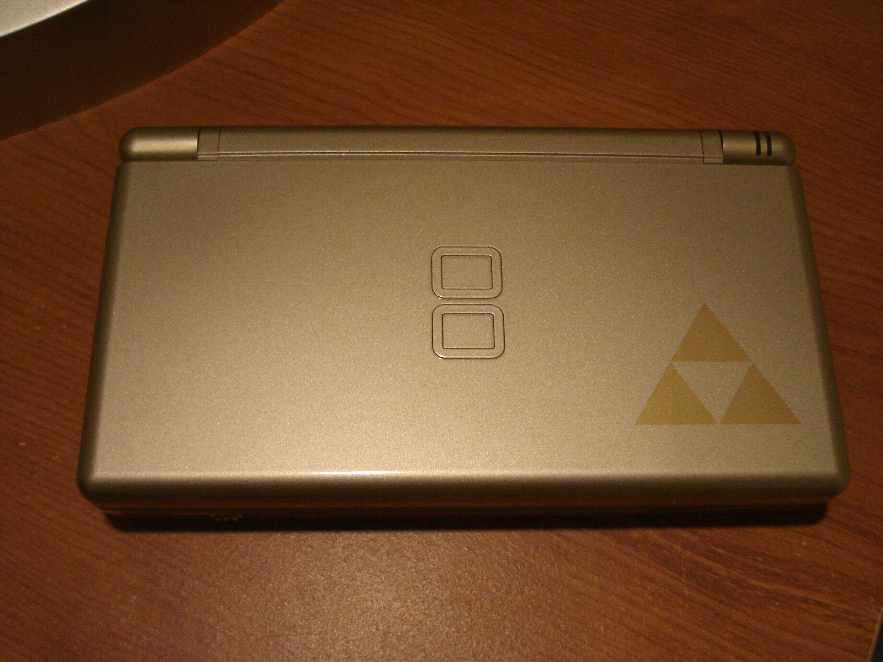 Image showing the Nintendo DS gold